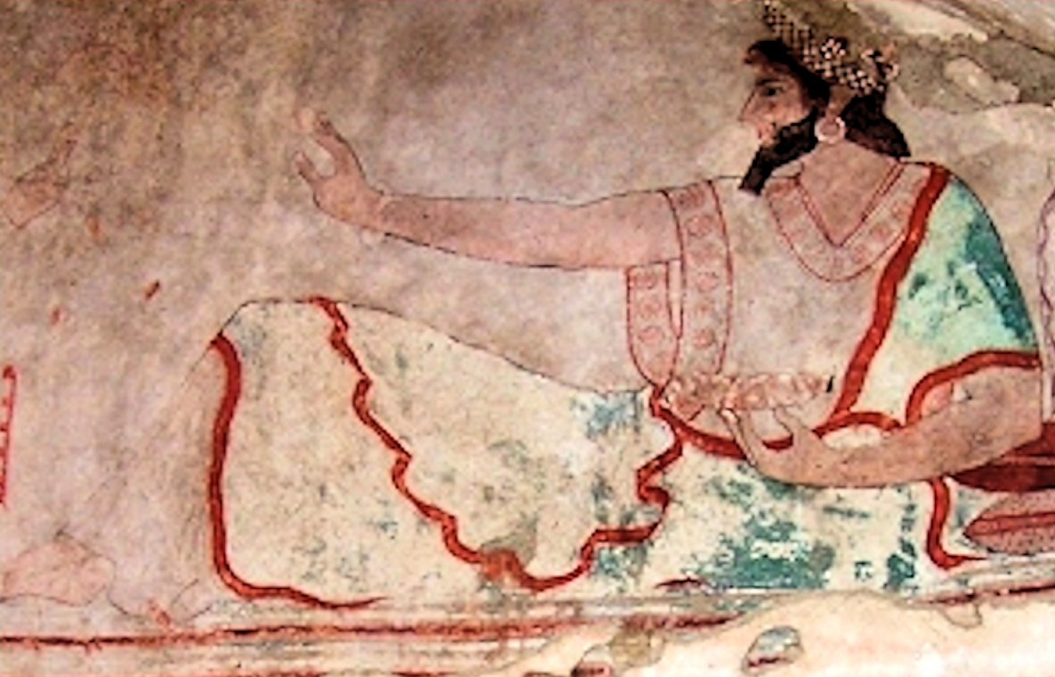 Karaburun Elmali dignitary 470 BCE